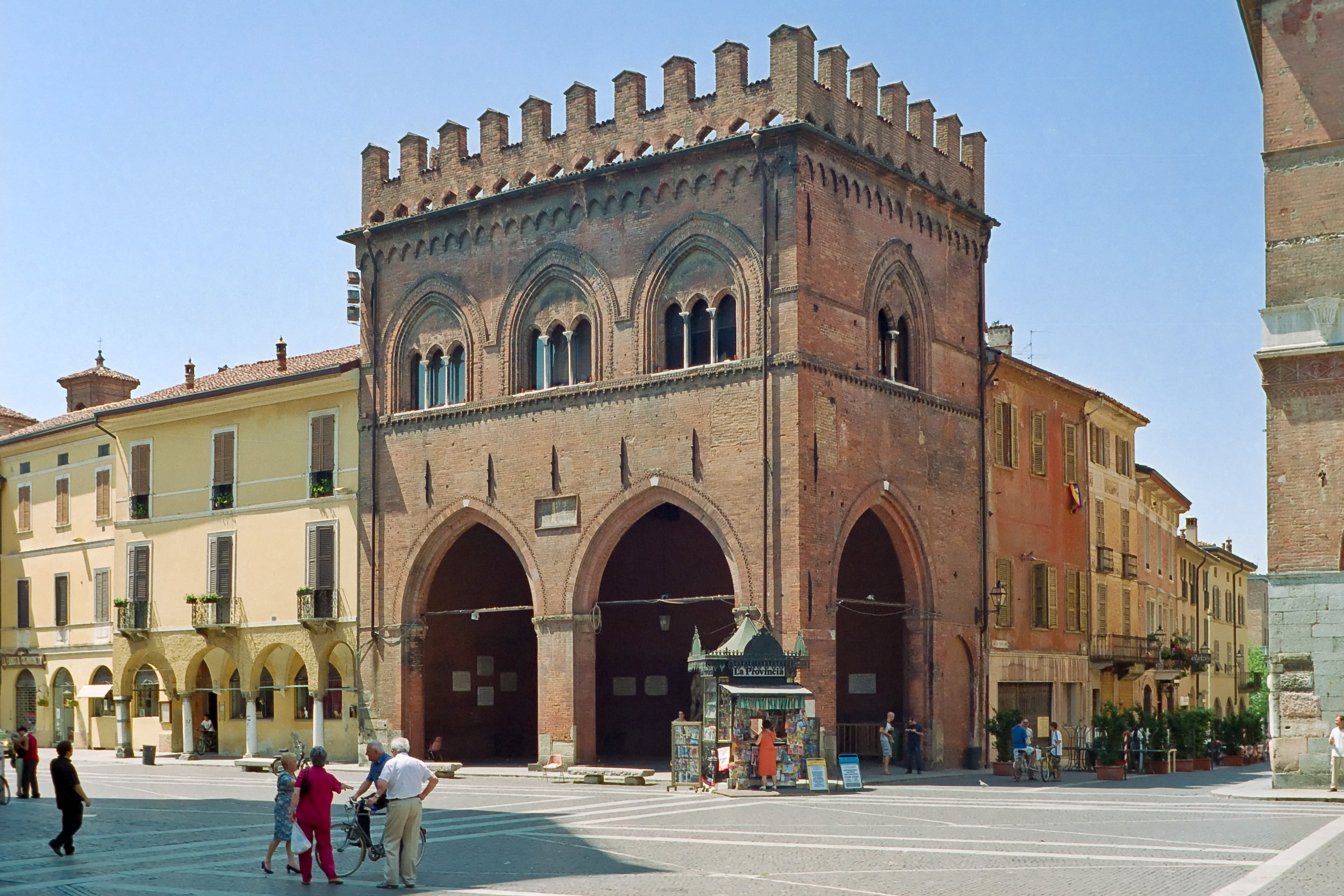 La Loggia dei Militi, Cremona - Italy. Brick and Marble in the Middle Ages: Notes of a Tour in the North of Italy, by George Edmund Street, 1855 : « Close to the baptistery is a building, called in Murray's Handbook the Palace of the Jurisconsults, turned when I first saw it into a school for a not very polite set of children and teachers, who all apparently felt the most lively interest in my architectural pursuits. It was originally open below, but the arches on which it stood are now filled up. This upper stage is very simple and beautiful, and the whole is finished at the top with a cornice and parapet, with battlements pointed at the top like those in the Torrazzo, and not forked as we have been lately so accustomed to see them. [...] There is a simplicity and truthfulness of construction about this little building which make it especially pleasing after the unreal treatment of the great transept-fronts of the Duomo ».